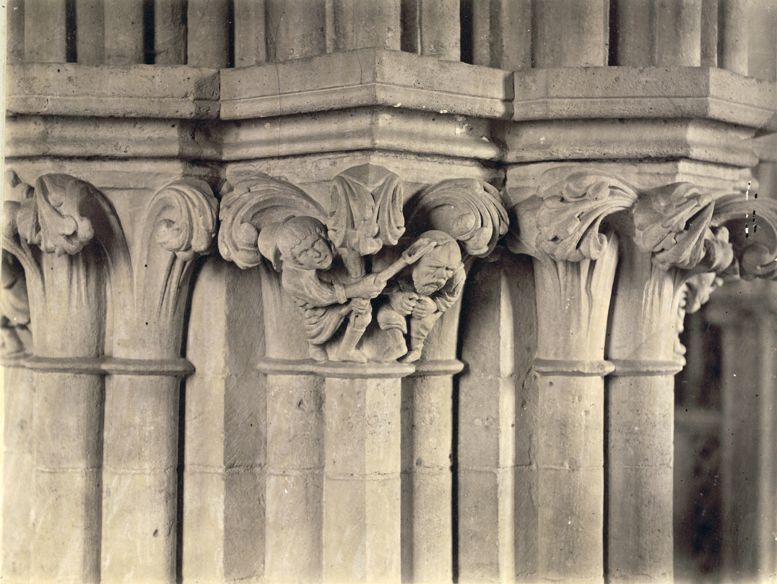 Collection: A. D. White Architectural Photographs, Cornell University Library Accession Number: 15/5/3090.00805 Title: Grotesque Capital, Wells Cathedral Building Date: ca. 1183-1260 Photograph date: ca. 1867-ca. 1895 Location: Europe: United Kingdom; Wells Materials: albumen print Image: 6 3/8 x 8 1/2 in.; 16.1925 x 21.59 cm Provenance: Gift of Andrew Dickson White Persistent URI: There are no known U.S. copyright restrictions on this image. The digital file is owned by the Cornell University Library which is making it freely available with the request that, when possible, the Library be credited as its source.